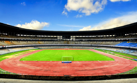 Salt Lake Stadium, officially Stadium of the Indian Youth (in Bengali যুব ভারতী ক্রীড়াঙ্গন, Yuva Bharati Kridangan), is a multi-use stadium in Salt Lake City, a district of Kolkata, India. The stadium has the third largest capacity in the world. It is currently used for football matches and athletics. The stadium was built in 1984 by arup and holds 120,000 in a three-tier configuration.